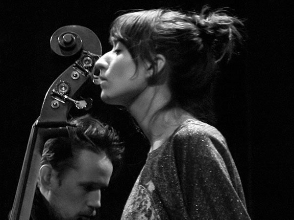 Lucia Cadotsch and Petter Eldh in Aarhus Denmark